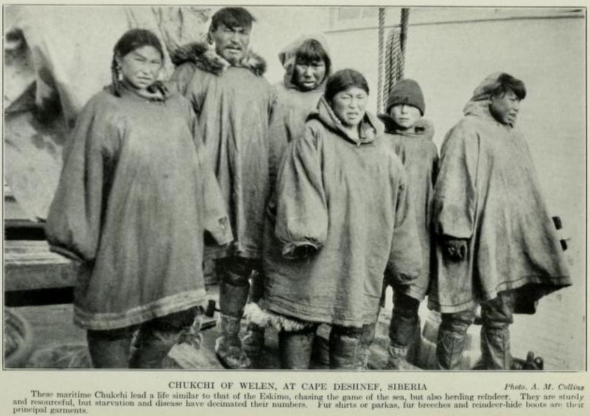 Chukchi Residents of Uelen, aboard ship, 1913